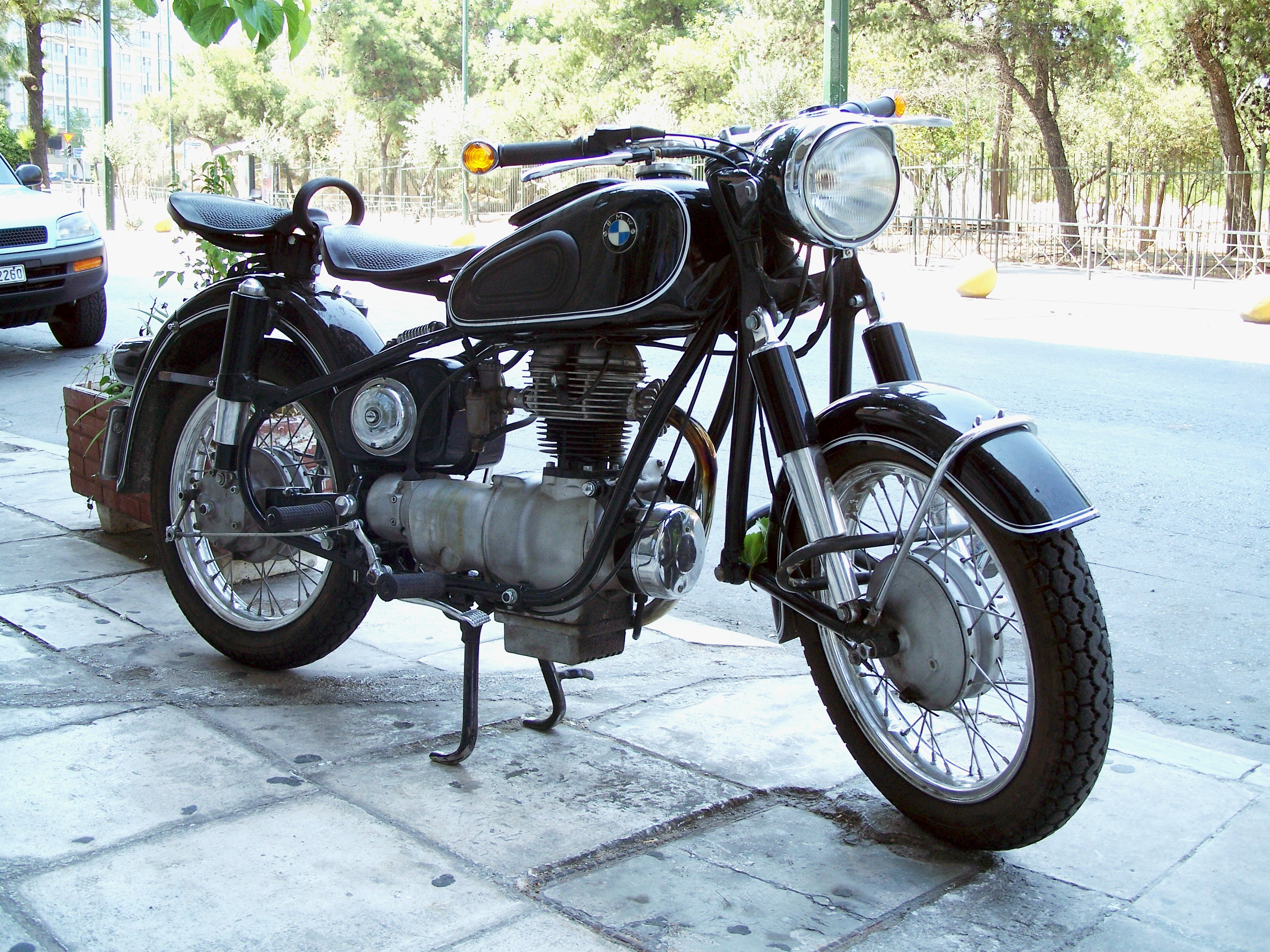 A restored (and possibly modded) BMW R27 in Athens, Greece.